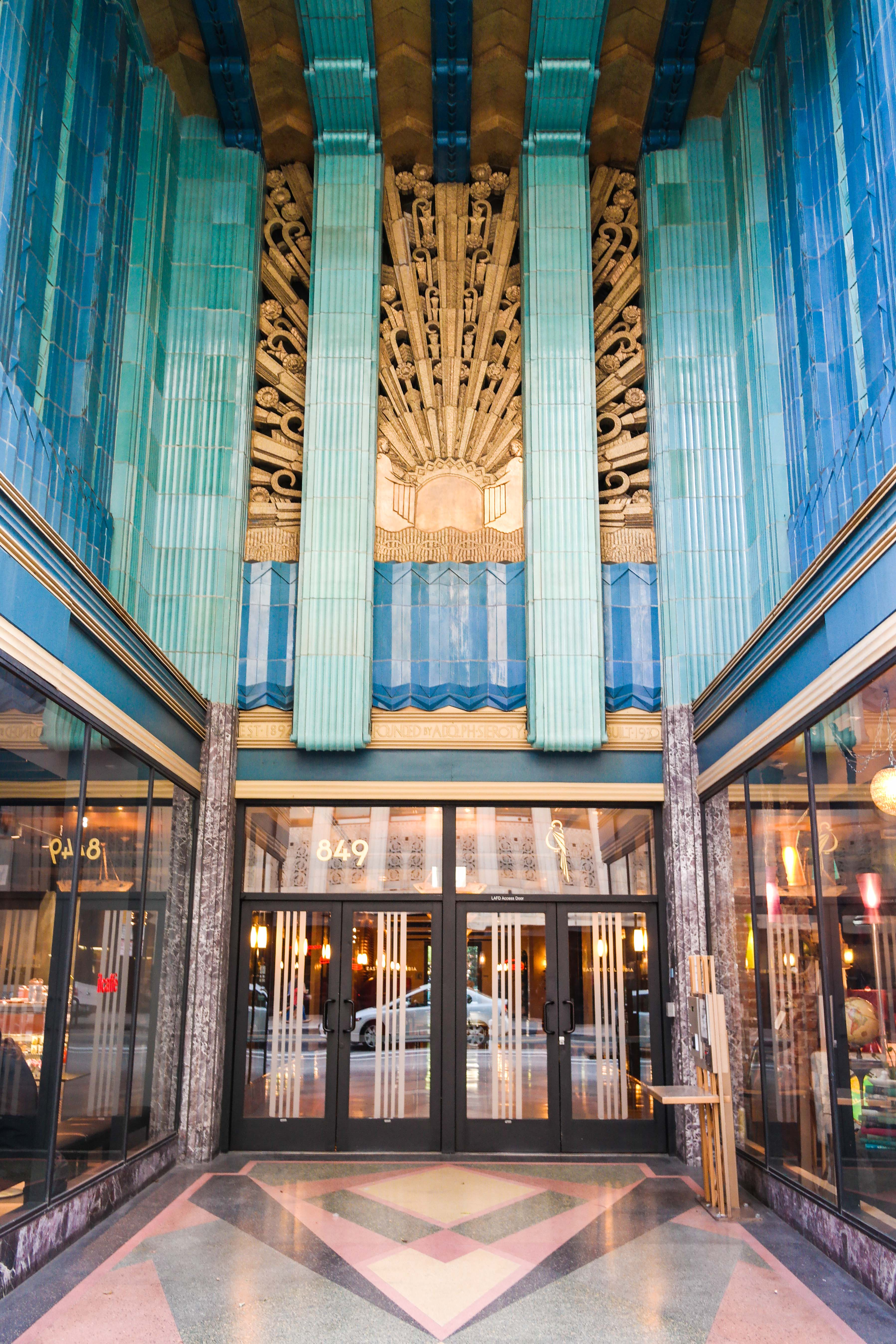 The 1930 Eastern Columbia Building in the Broadway Theater and Commercial District of Los Angeles